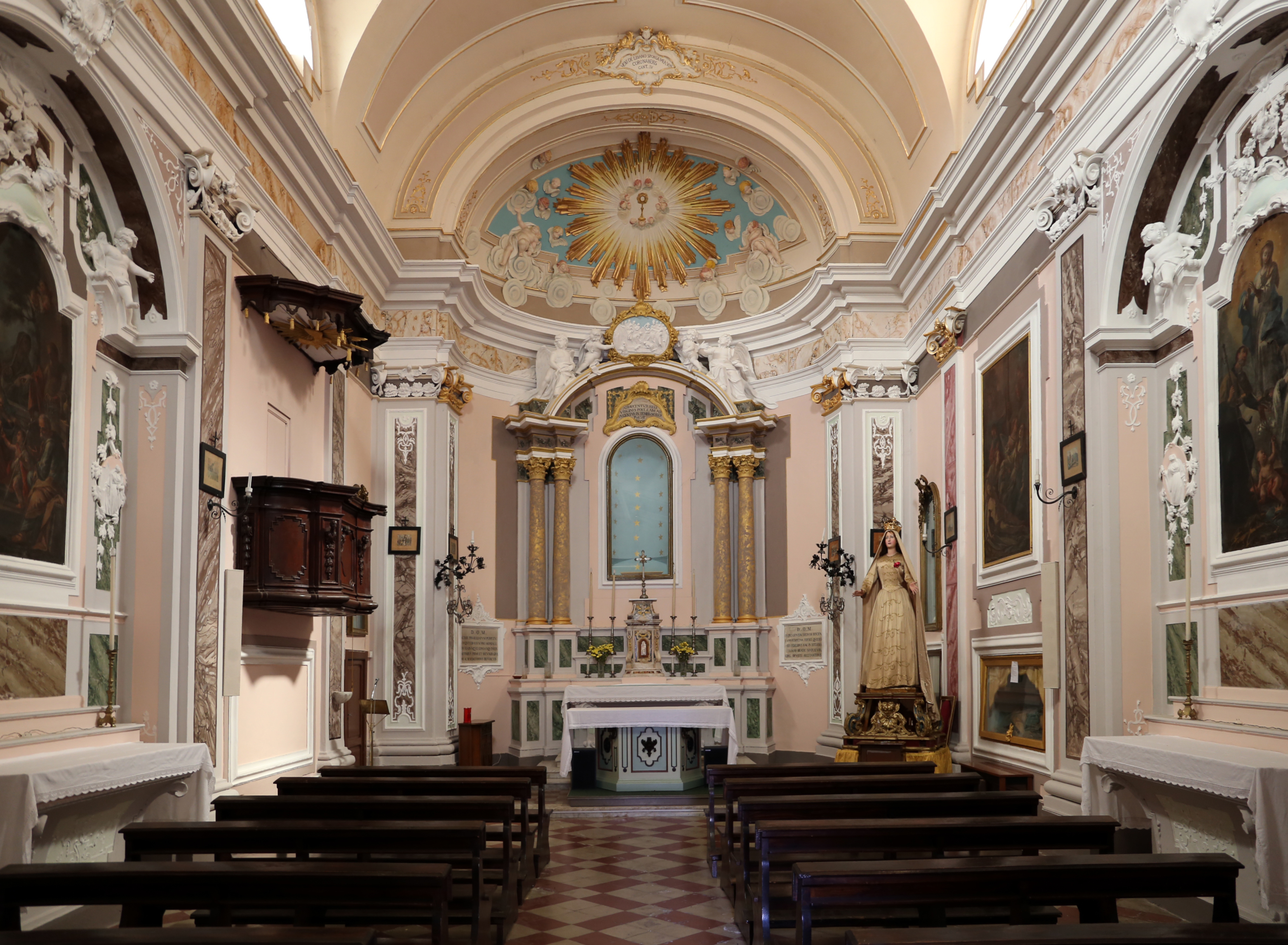 Santa Chiara (Guardiagrele)